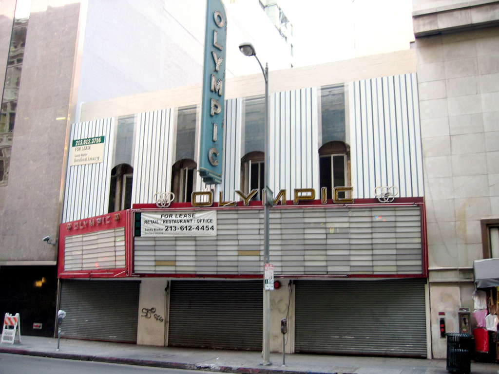 Olympic Cinema, at West Eigth Street in Los Angeles. It can be seen in a scene in the movie Fight Club.